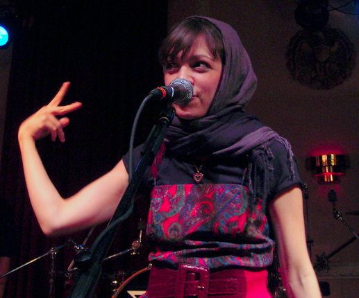 Natalia Lafourcade, Concert in chicago, november 2009